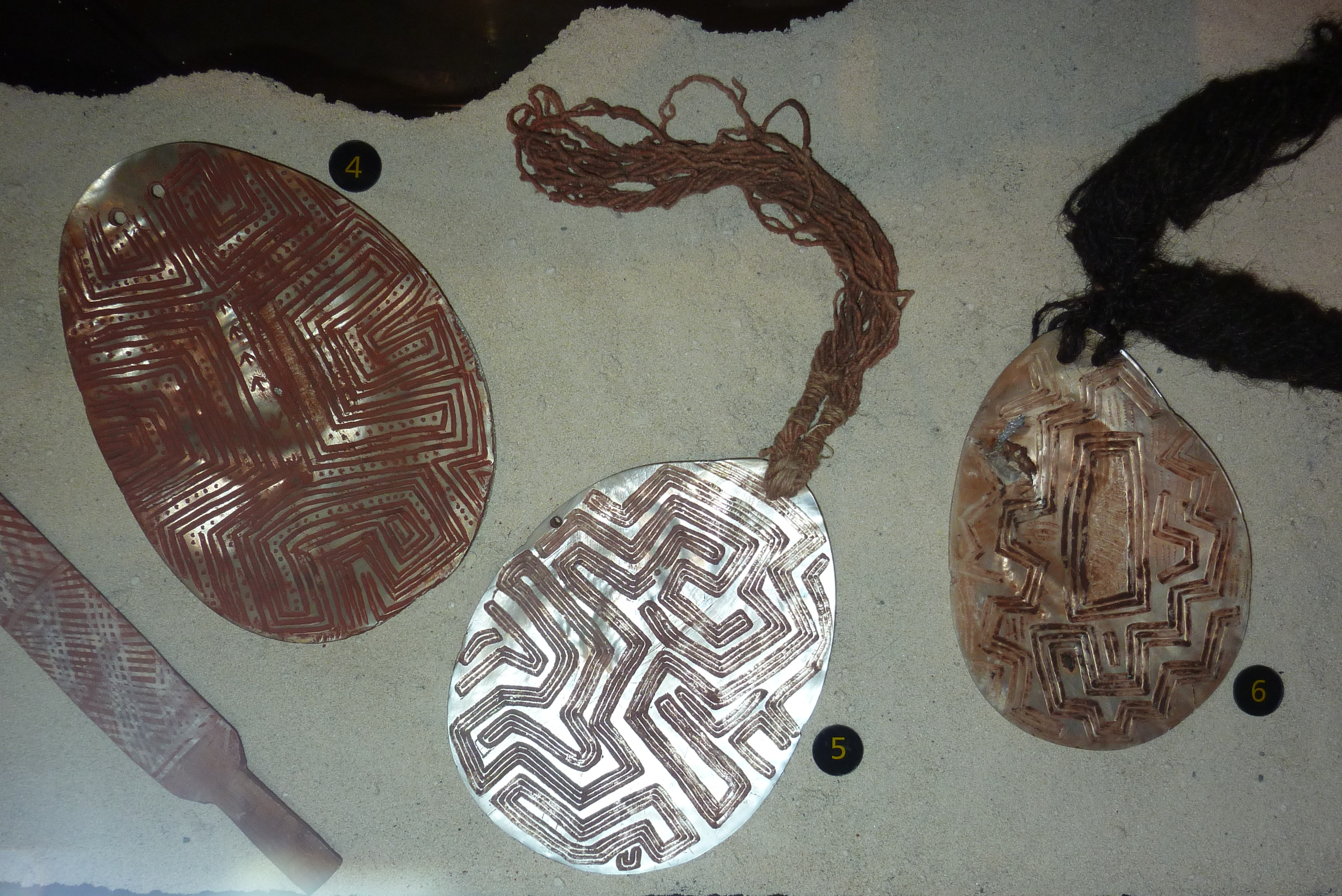 perl shell ornament with ochred engravings and hair string belts. exhibited in Australian Museum; Aboriginal Art